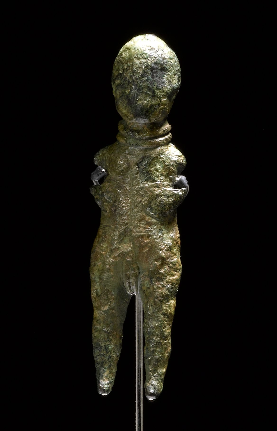 Bronze idol, late bronze age (700-500 BC). Found at the small island Farø in southeastern Denmark in the 1860'ies. National Museum of Denmark.